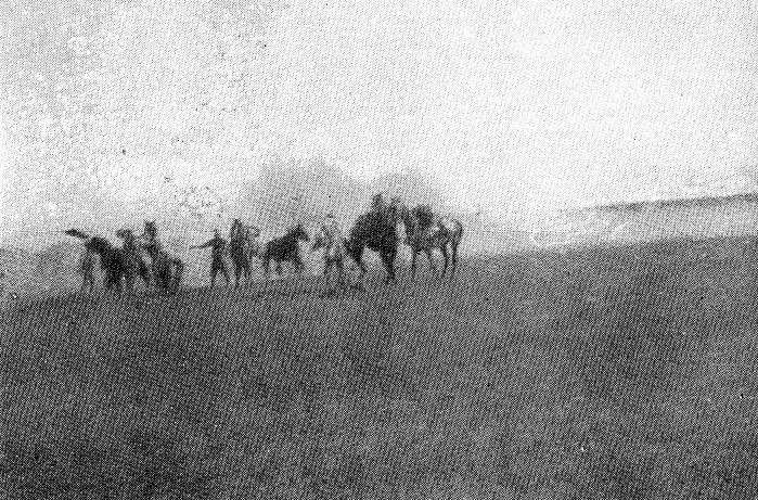 Photograph of Vickers Gun Section under fire during Second Battle of Gaza Other information New Zealand Government publication